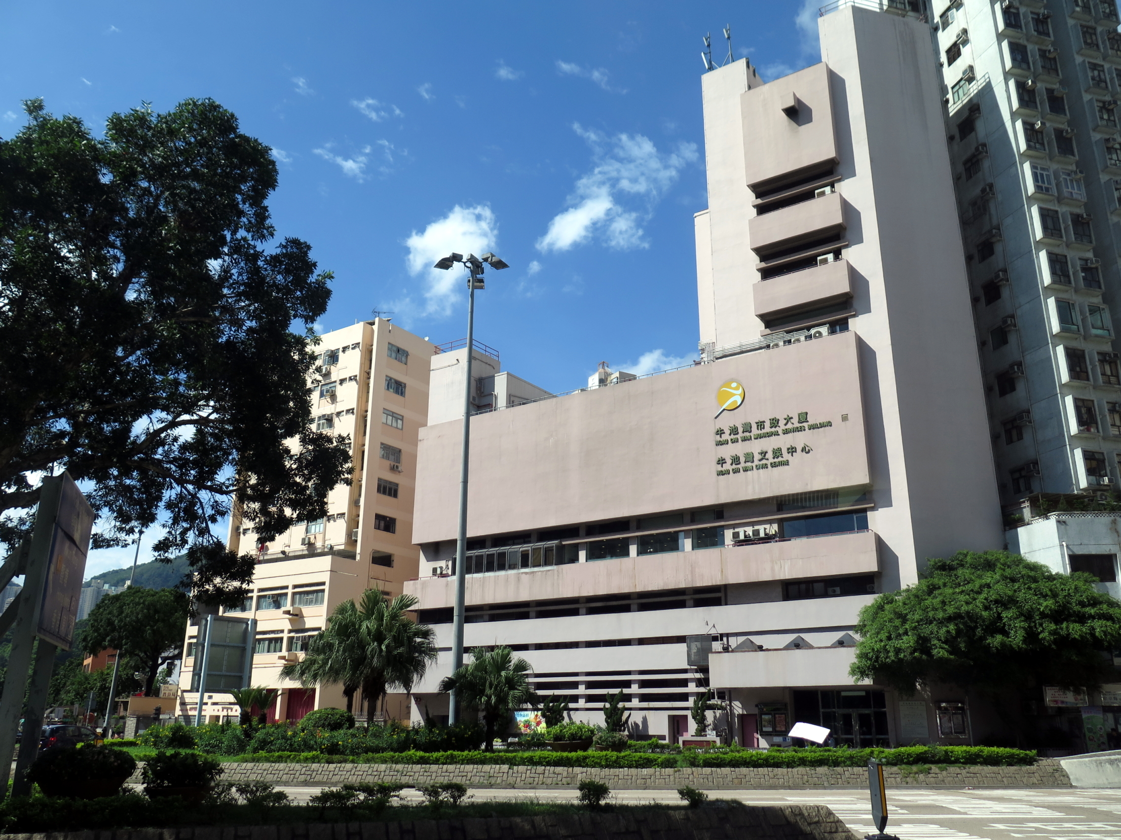 Ngau Chi Wan Civic Centre